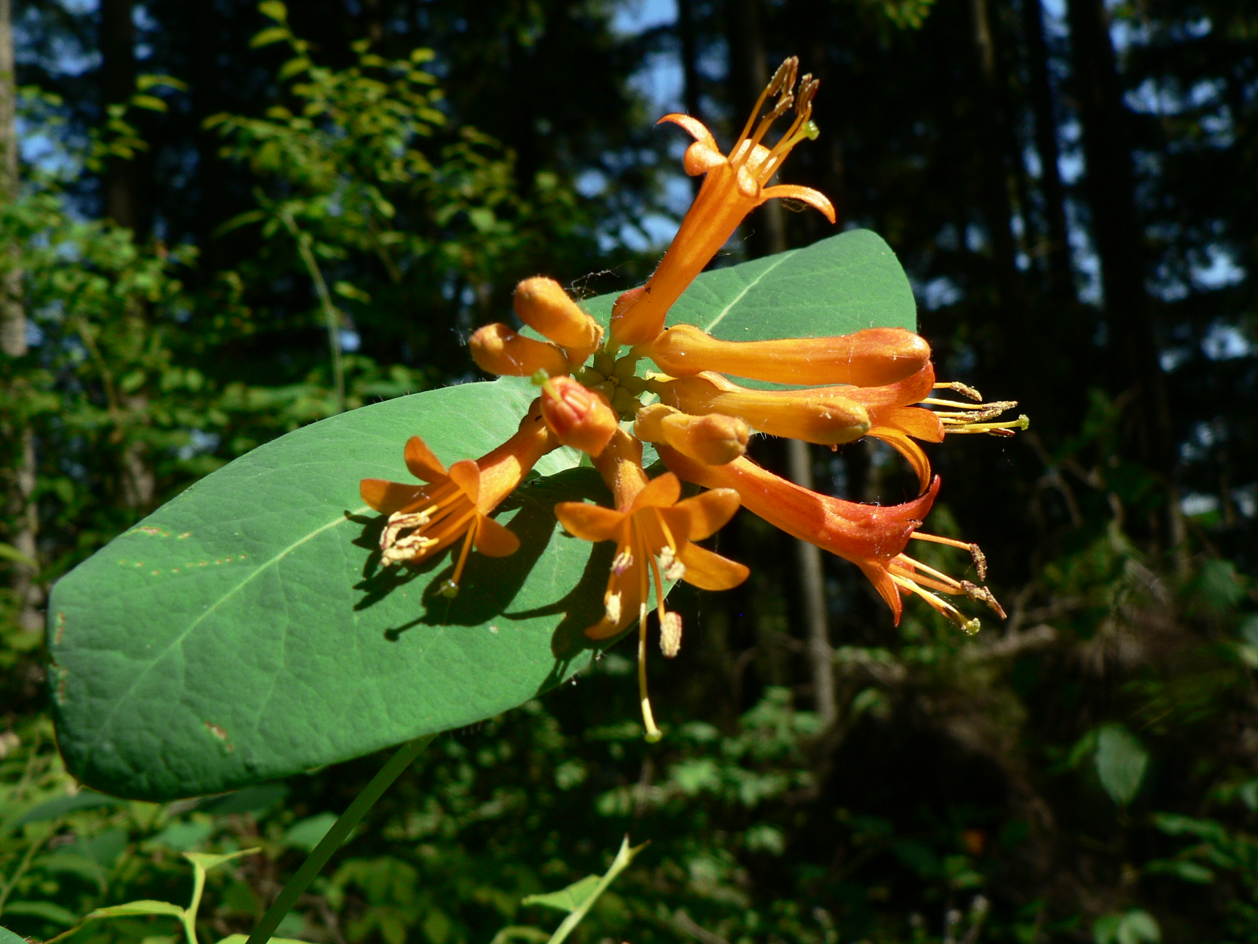 Orange Honeysuckle